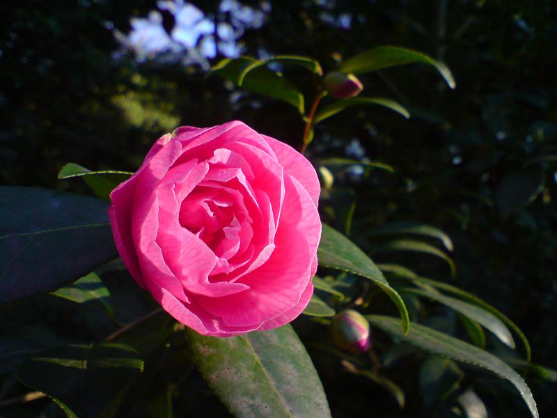 Unidentified Camellia sp. flower in Kew Gardens, London, England.